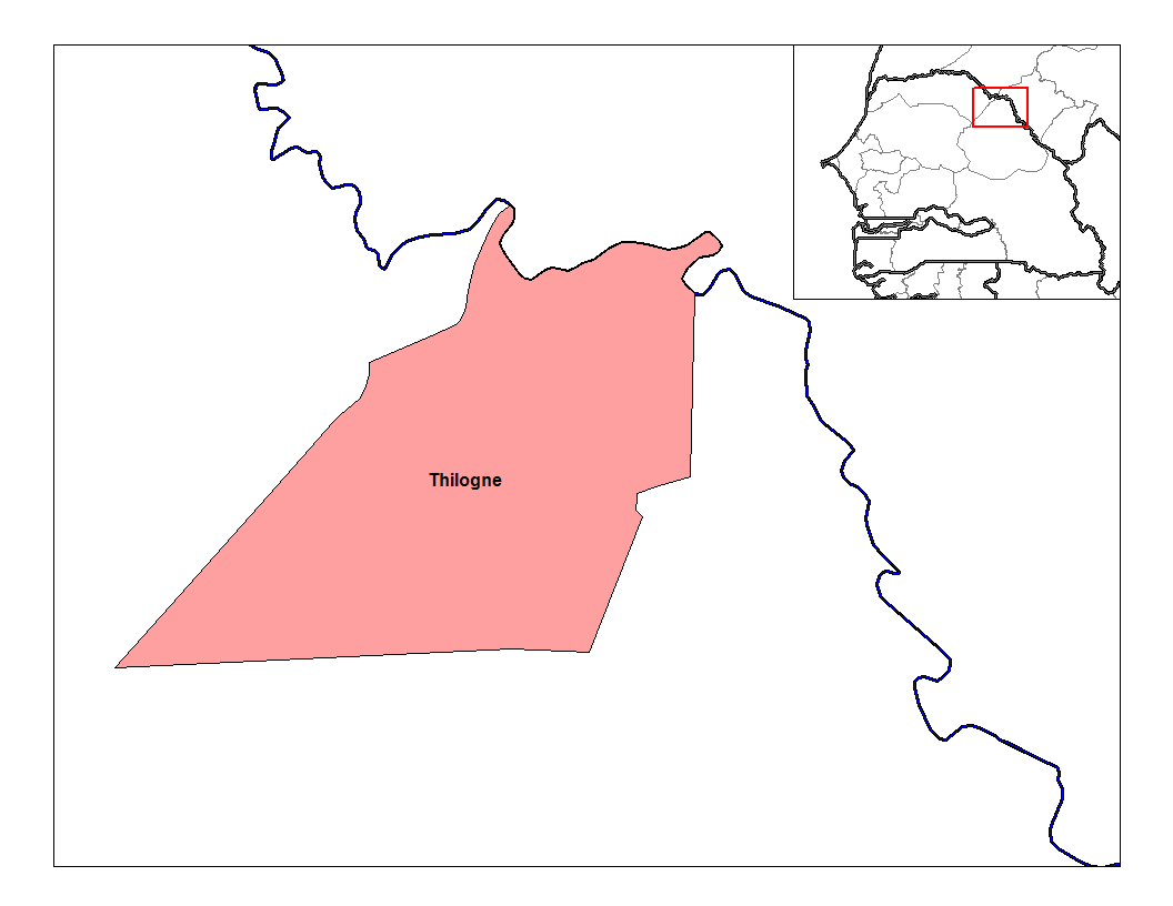 Map of the only arrondissement of Ranerou Ferlo department in Senegal.